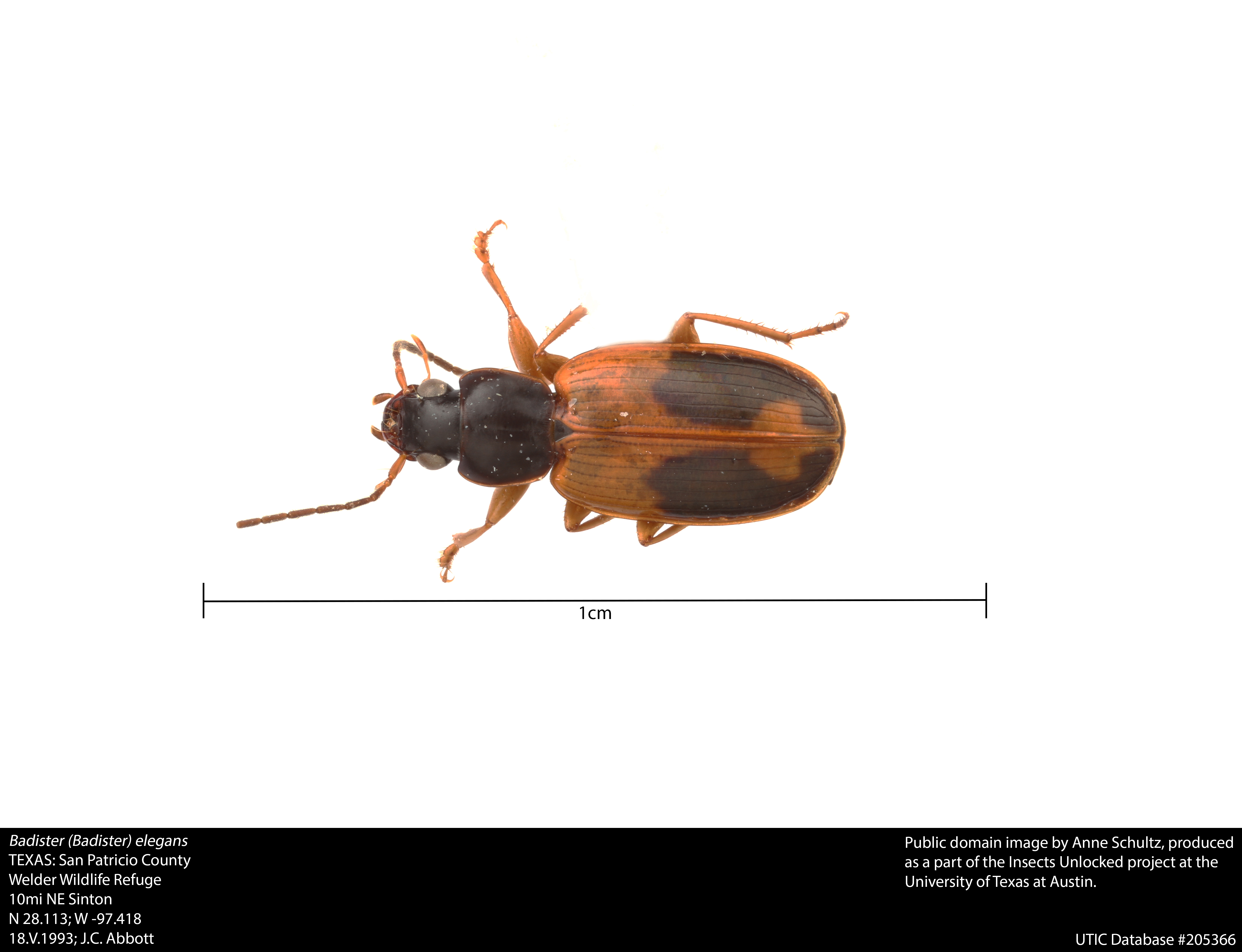 TEXAS: San Patricio County Welder Wildlife Refuge 10mi NE Sinton N 28.113; W -97.418 18.V.1993; J.C. Abbott UTIC Database #205366 This image was created as part of the Insects Unlocked project at the University of Texas at Austin. Based in the UT insect collection at Brackenridge Field Laboratory, part of the Department of Integrative Biology. Do not crop: This image is used on one or more sister projects (where its entire contents are wanted), or has archival significance. If you crop it, please save the new image separately, and do not overwrite this